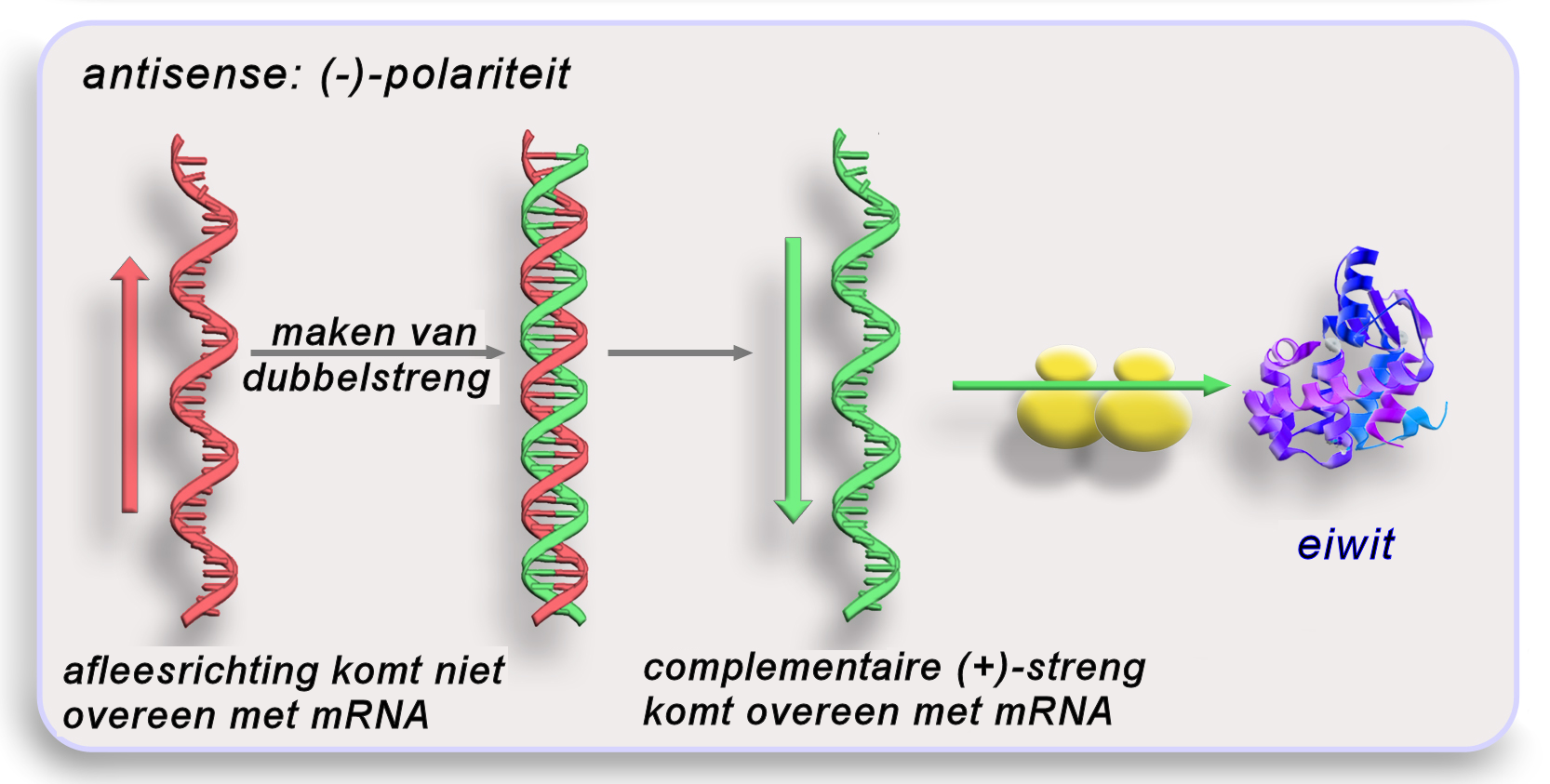 Now with Dutch txt